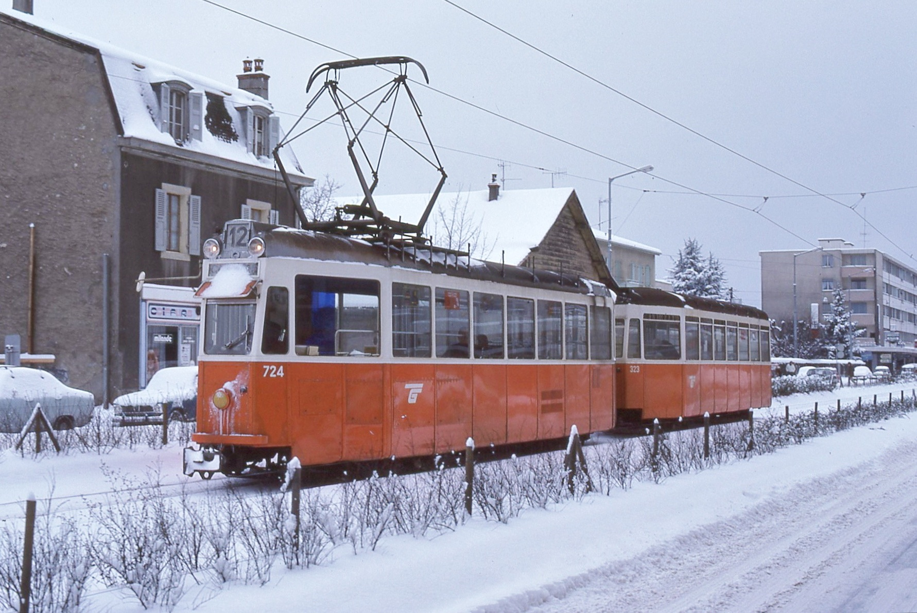 A Geneva tram (motored car 724 and trailer 323) in the snow, on Rue de Genève, in the 1980s. Car 724 was built by SWP in 1951, and trailer 323 by SWP in 1947. Car 724 was sold to Sibiu, Romania, in 1996.